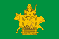 Volosovo (Leningrad oblast), flag